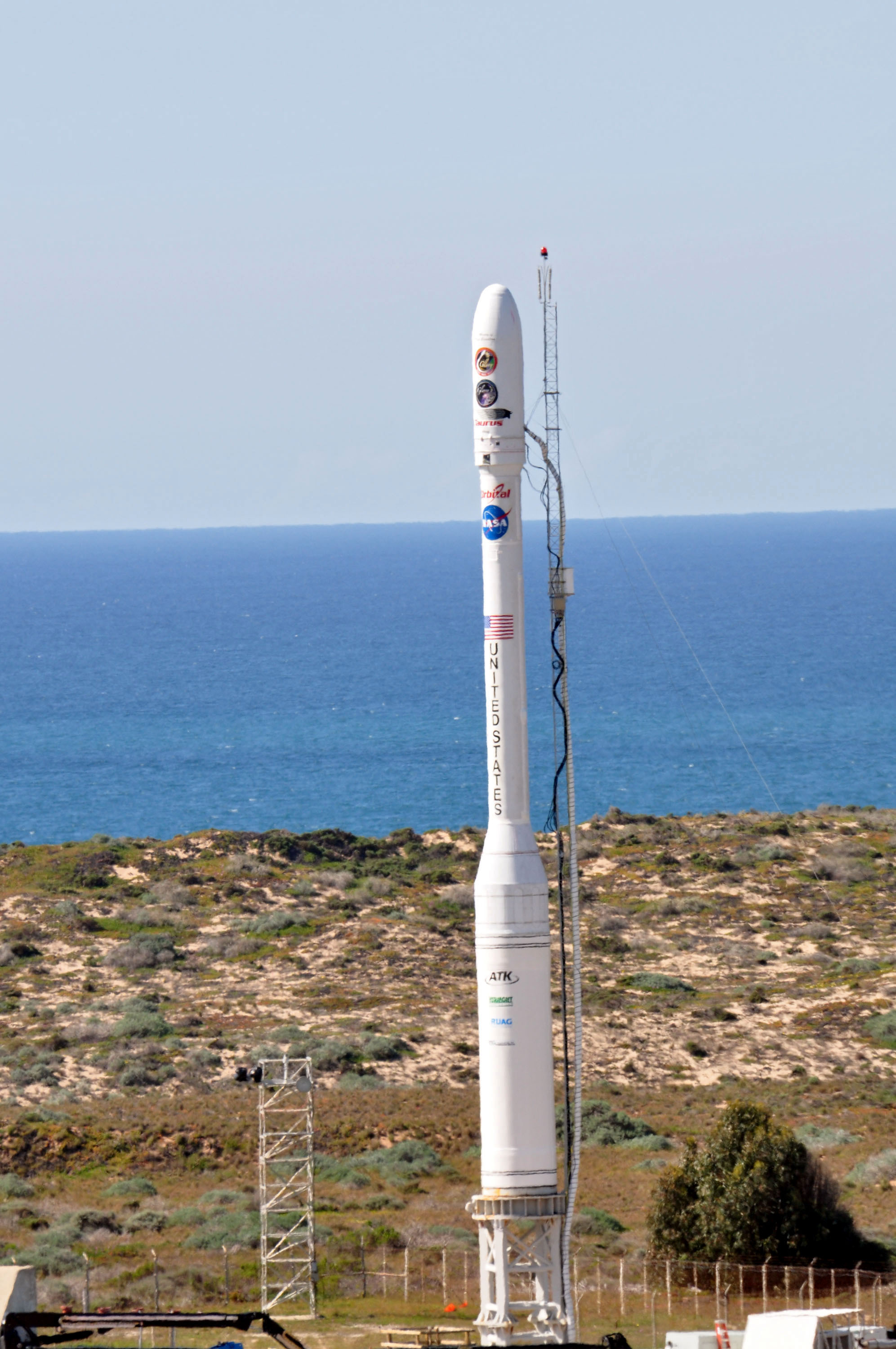 VANDENBERG AIR FORCE BASE, Calif. -- The Orbital Sciences Taurus XL rocket and NASA's encapsulated Glory spacecraft await launch on the pad at Vandenberg Air Force Base's Space Launch Complex 576-E in California. Liftoff originally was scheduled for 5:09 a.m. EST Feb. 23, but was scrubbed for at least 24 hours due to a technical issue that engineers are evaluating. Once Glory reaches orbit, it will collect data on the properties of aerosols and black carbon. It also will help scientists understand how the sun's irradiance affects Earth's climate. For information, visit